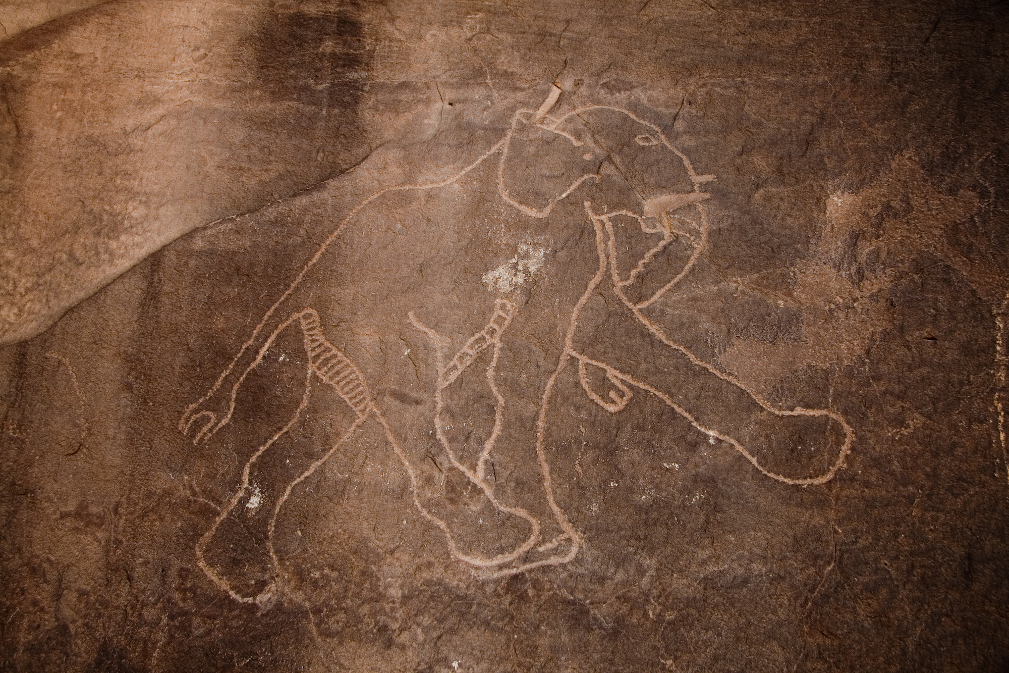 Rock carving of elephants in Tadrart Acacus region of Libya reflecting the dramatic climatic changes in the area.